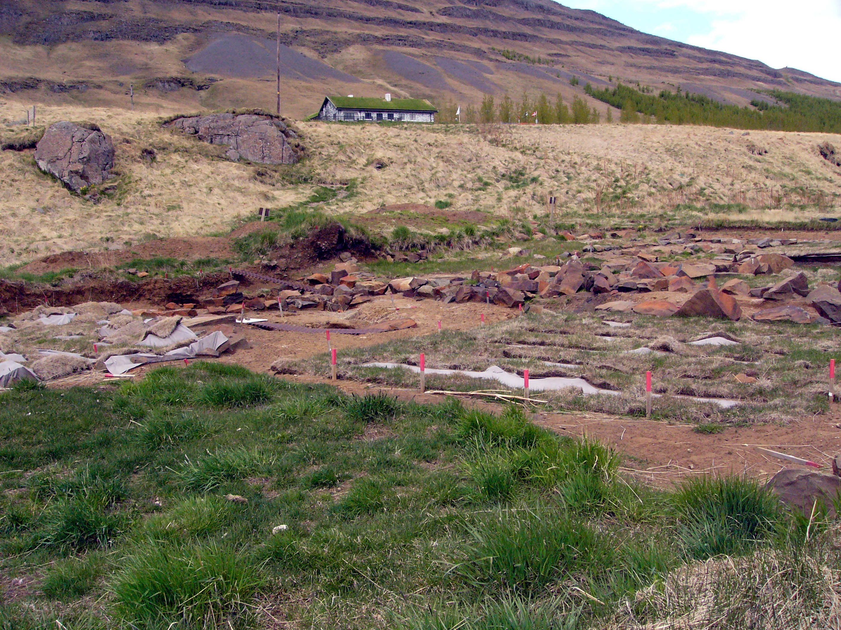 Excavation site of Skiðklaustur in Iceland from the fifteenth century. This was an Augustinian monastery.